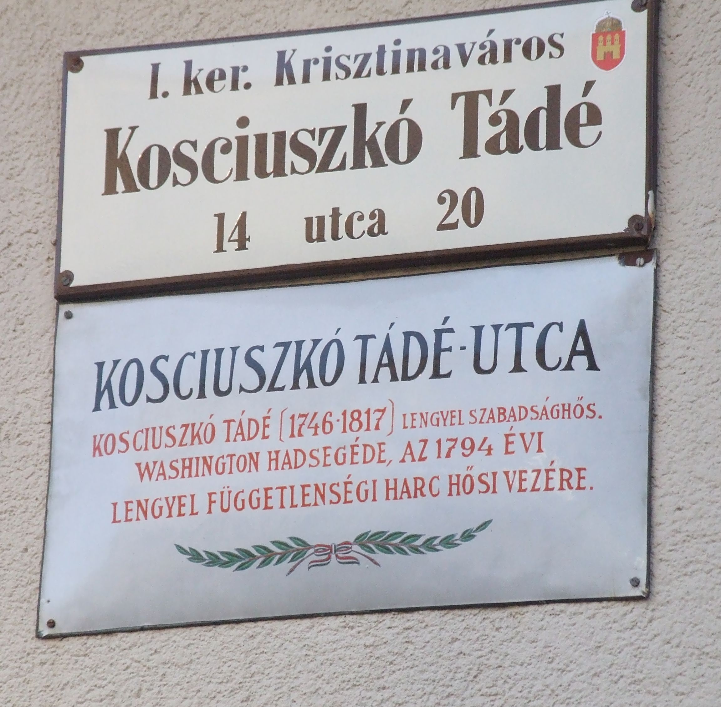 Tadeusz Kościuszko commemorative plaque in Budapest District I, Kosciuszkó Tádé Street No 14